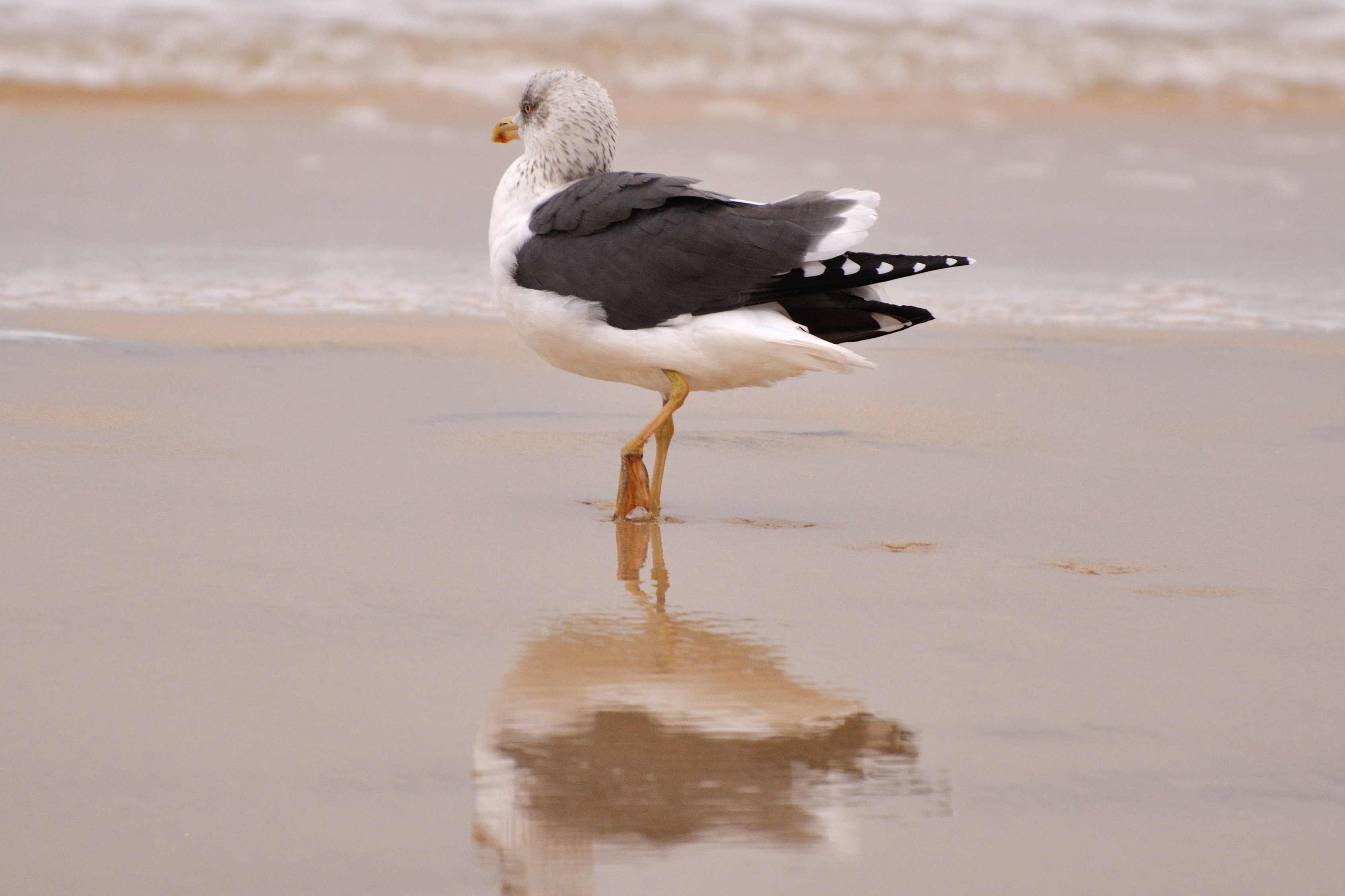 Spain, birds on the beach in Fuerteventura